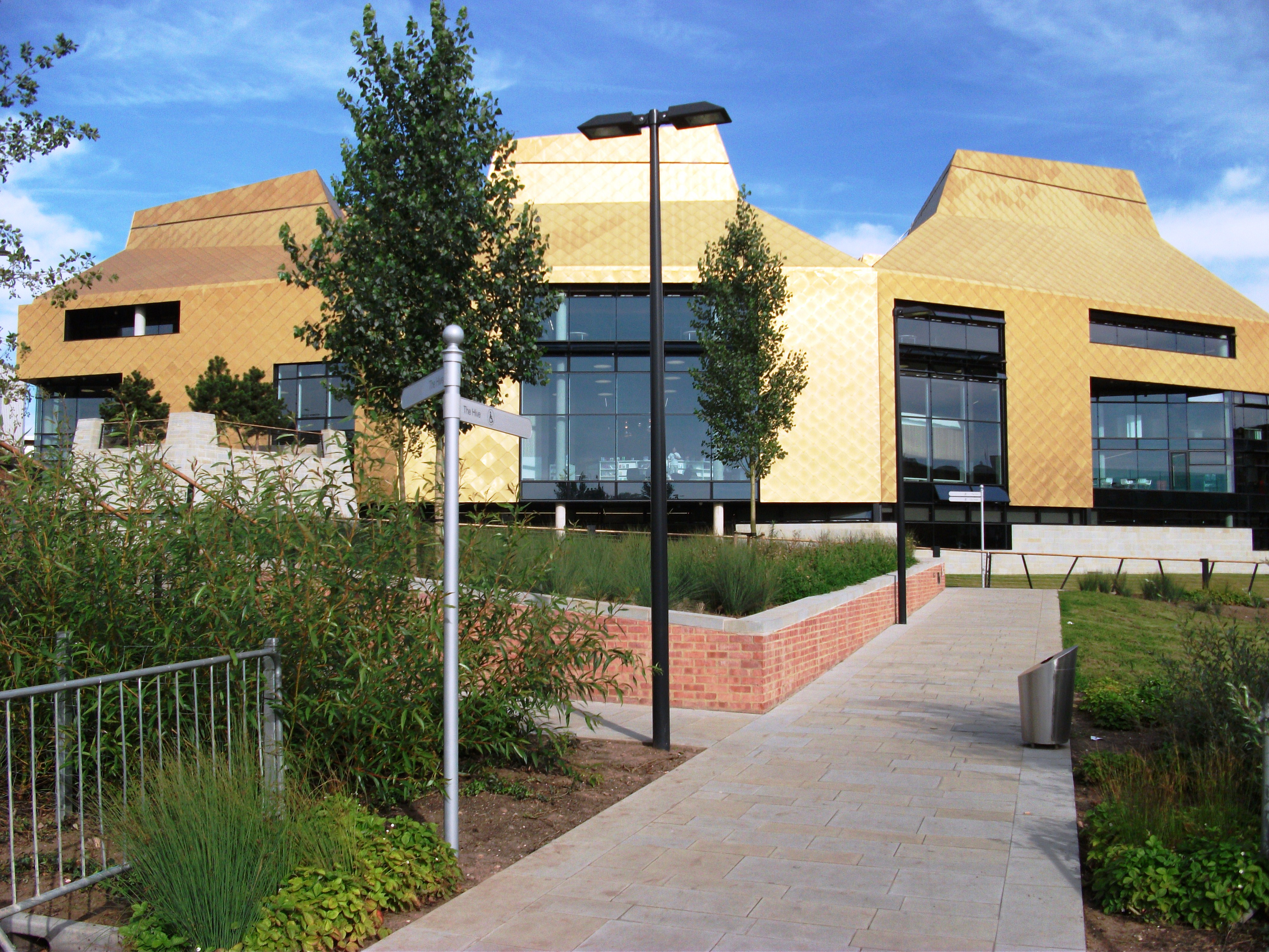 Public building commissioned by Worcestershire County Council and the University of Worcester